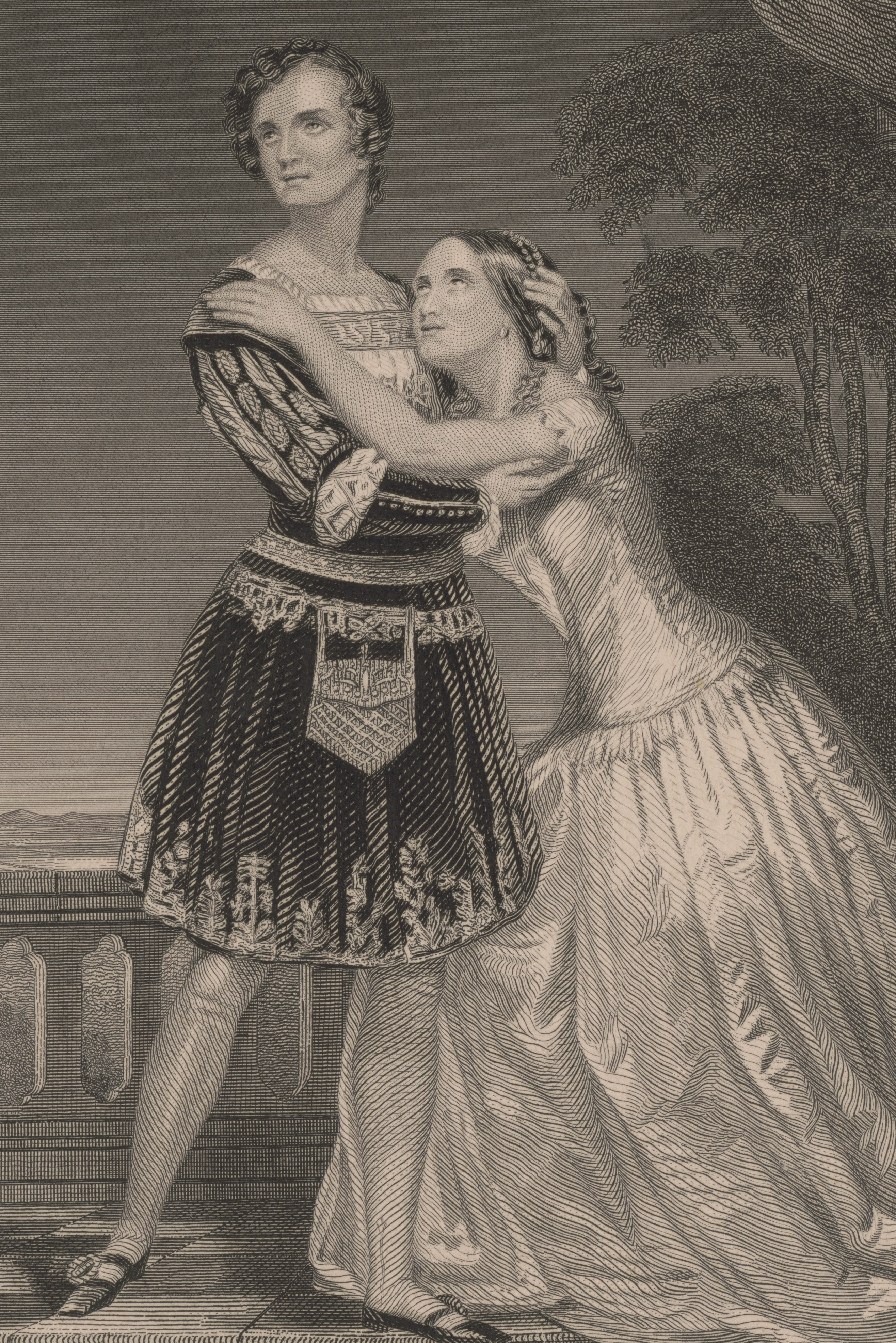 Title: Charlotte and Susan Cushman as Romeo and Juliet / John Tallis & Company, London & New York. Abstract/medium: 1 print : steel engraving ; sheet 27 x 18 cm.